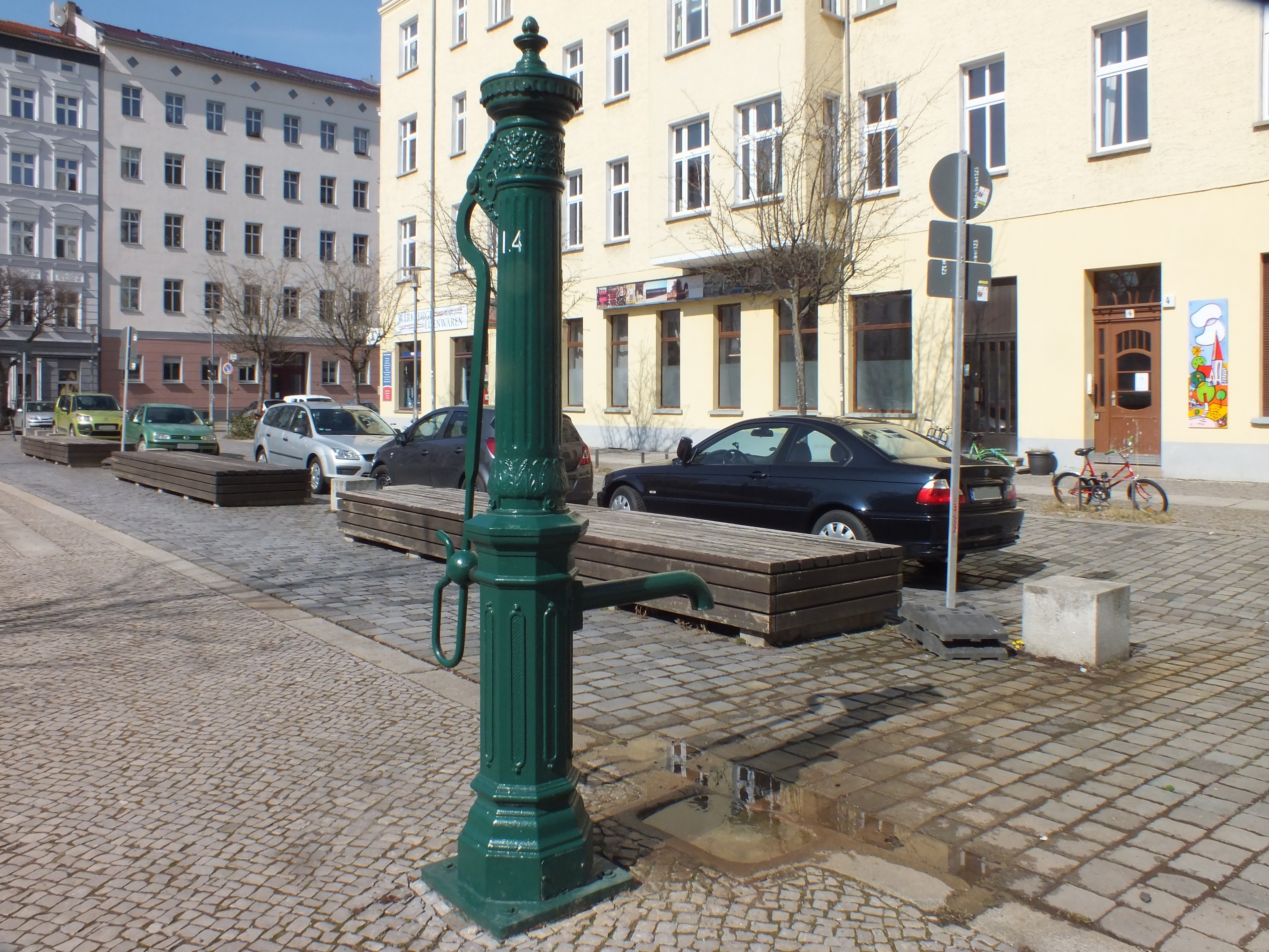 Notwasserpumpe am Tuchollaplatz (L 4)